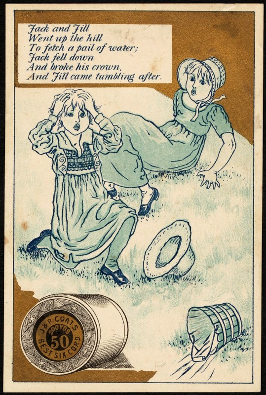 A chromolithograph advertising card for J. & P. Coats’ six-chord thread, based on Kate Greenaway’s illustration of “Jack and Jill” from her Mother Goose (1881)